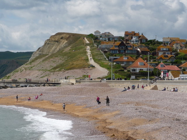 West Bay: the west beach with West Cliff beyond Looking across the west beach at West Bay, with the West Cliff (in SY4590) in the background.